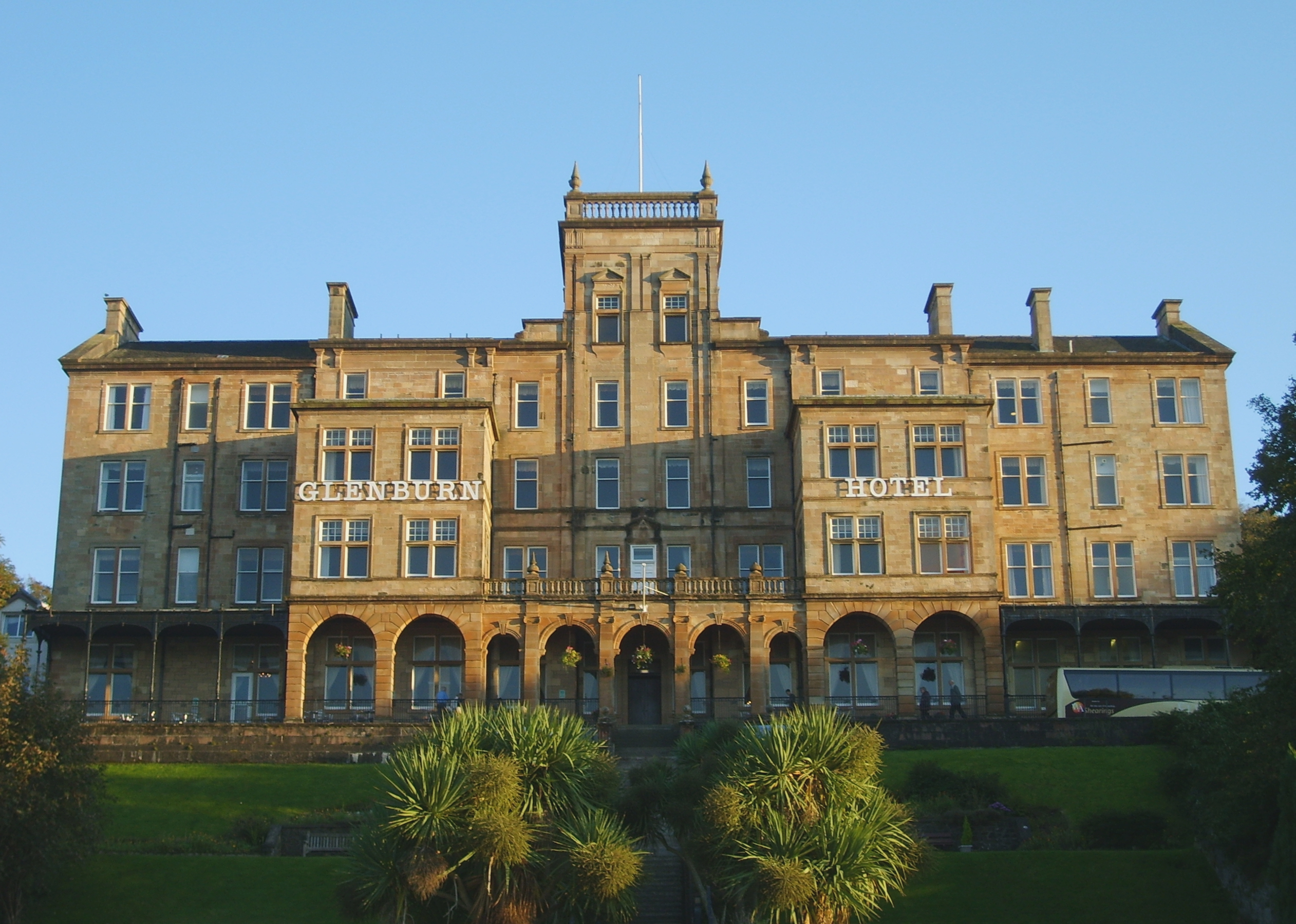 Glenburn Hotel, formerly a hydropathic establishment (1843), in Rothesay, Isle of Bute, Scotland.